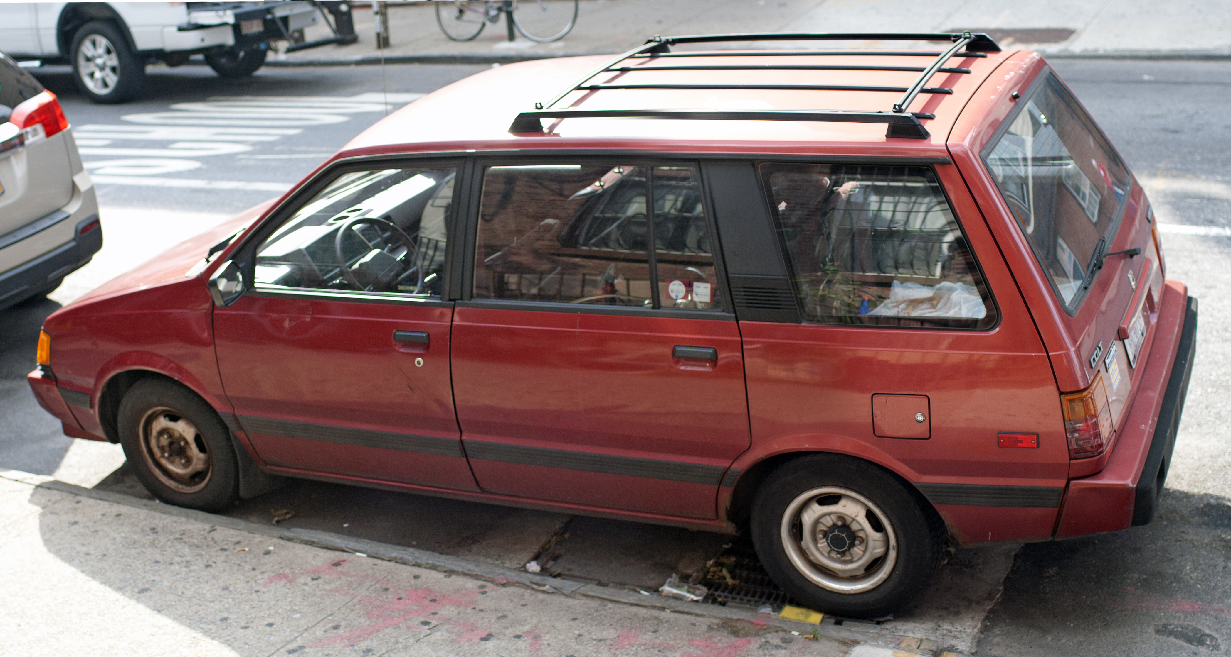 1987 Dodge Colt Vista wagon.